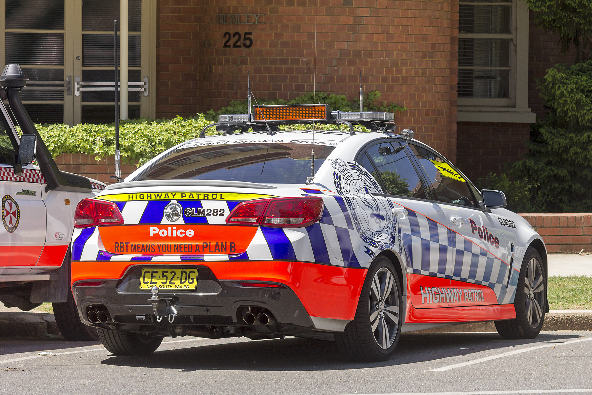 NSW Police Force Central Metropolitan region Highway Patrol (CLM 282) Holden VF Commodore SS parked in Wagga Wagga.